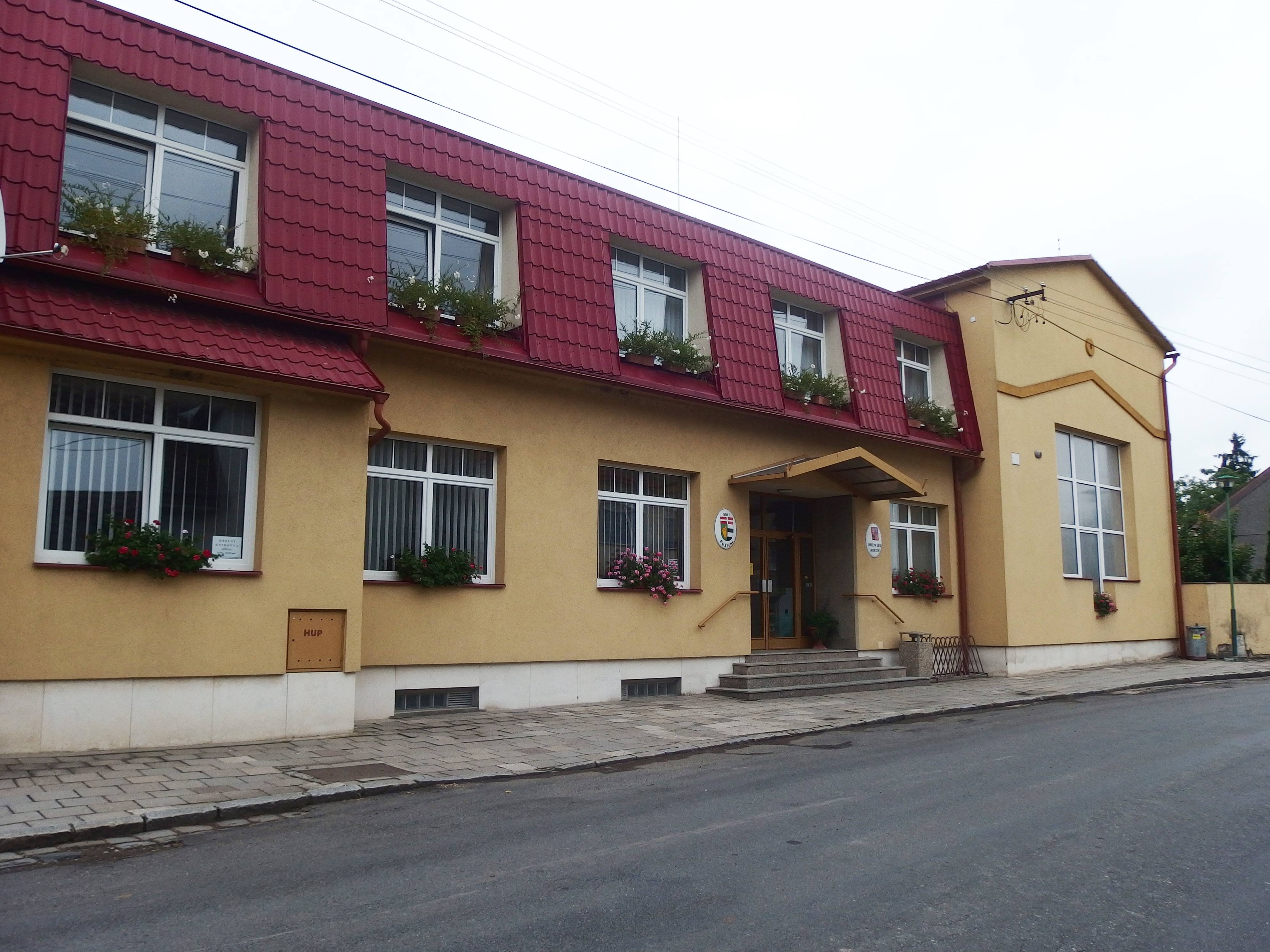 Roštění, Kroměříž District, Czech Republic.